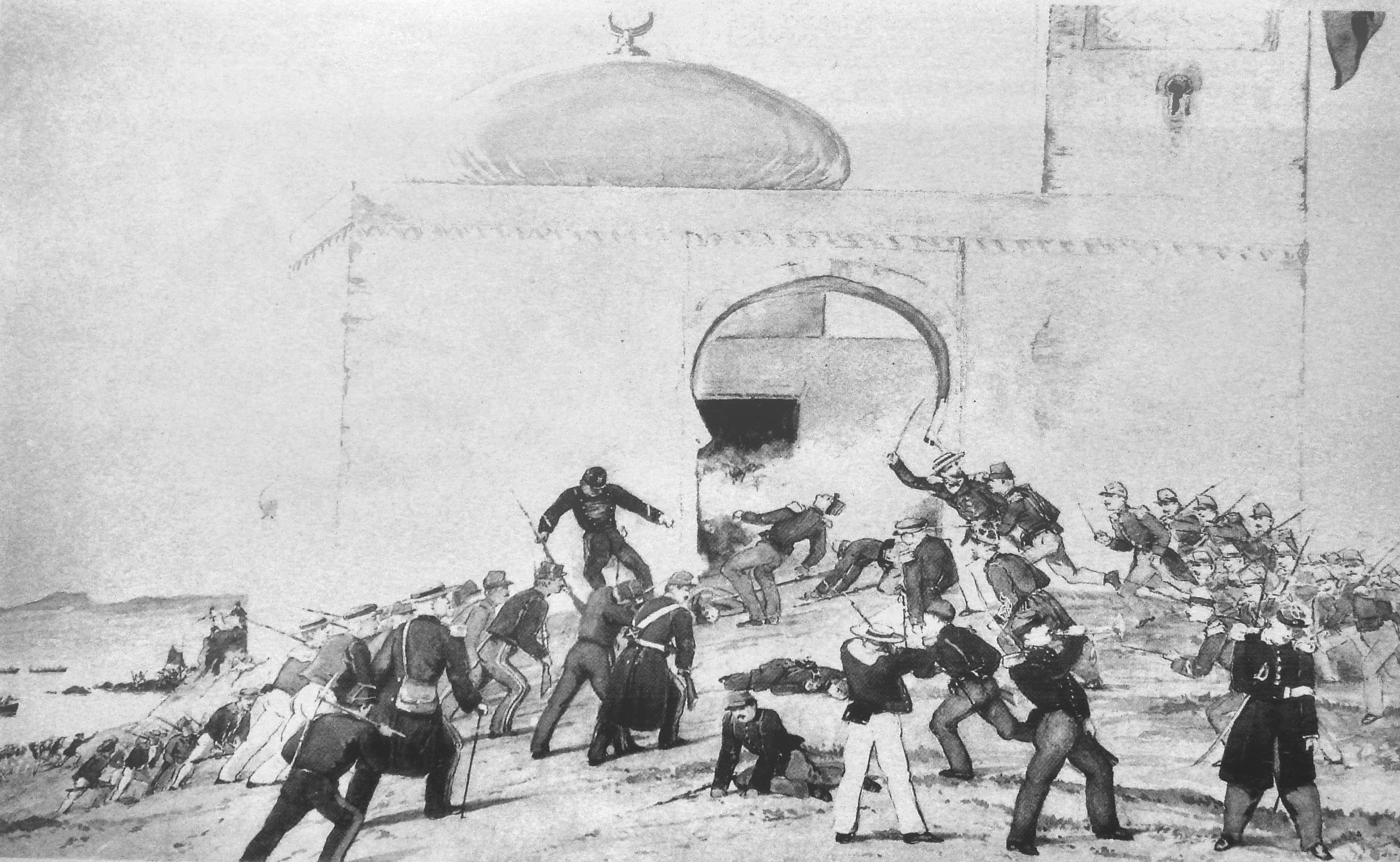 Attack_of_the_Mosque_on_Mogador_island_1844.